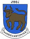 Markvartovice CoA CZ